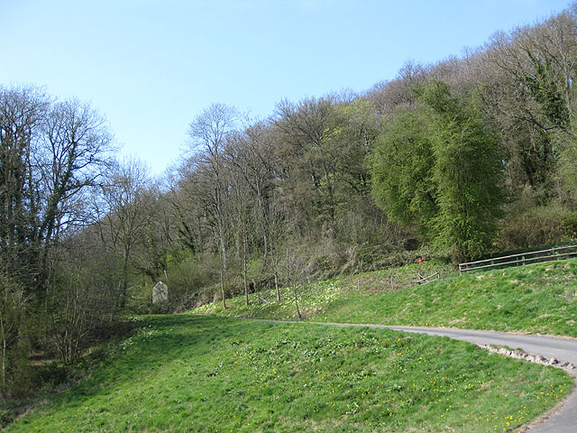 Wooded side of Dinmore Hill Mixed woodland viewed from close by The Railway pub.